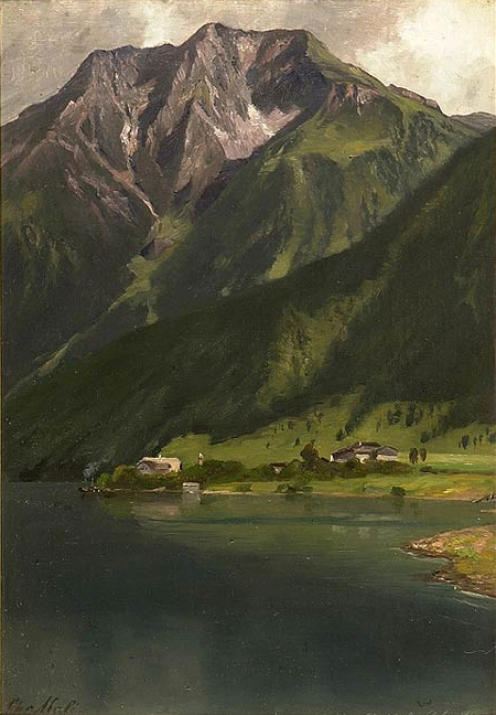 Achensee, Tyrol. View to south: Village Pertisau and Bärenkopf (1991m)